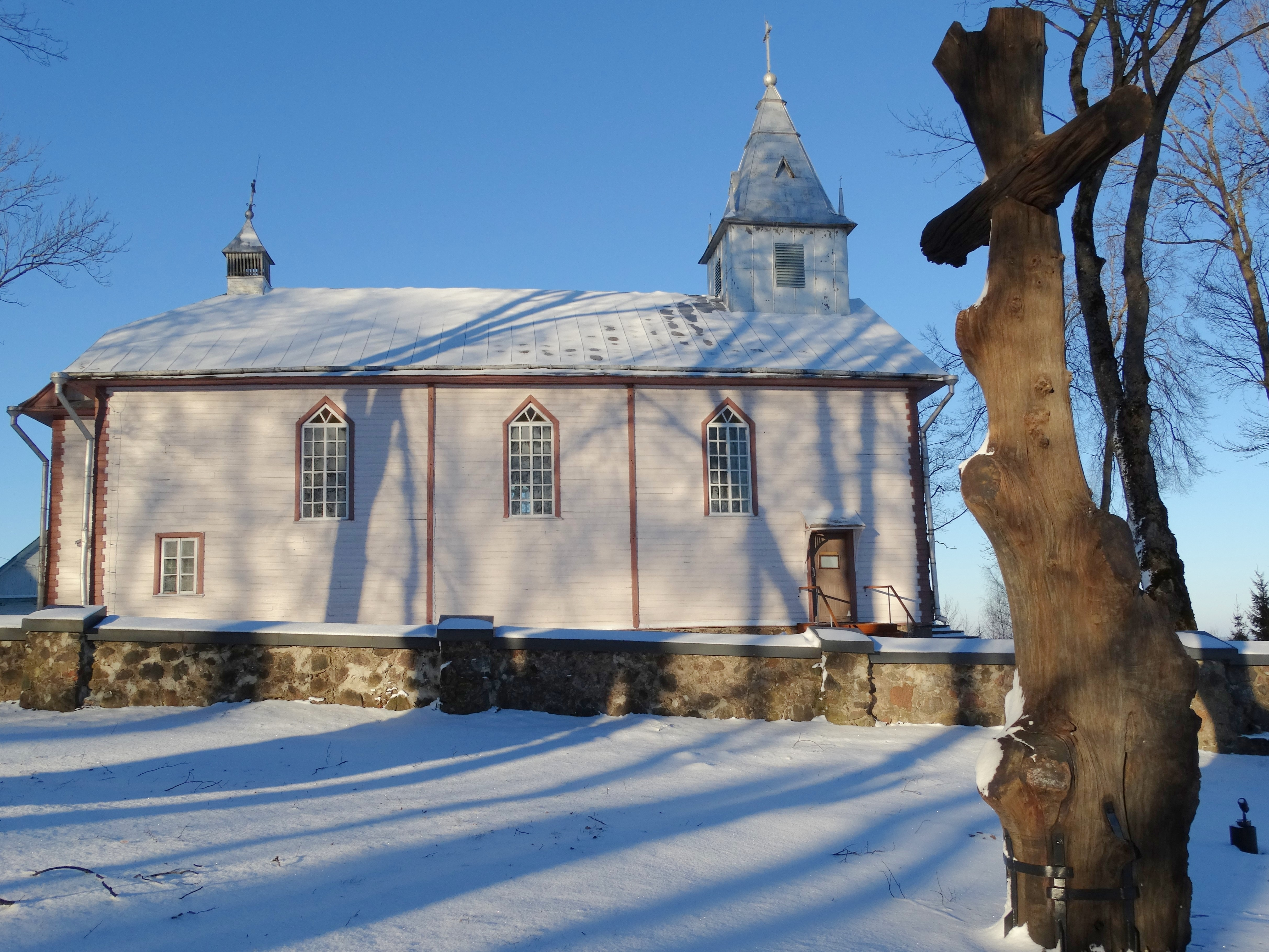 Roman Catholic Church, Beižionys, Elektrėnai Municipality, Lithuania